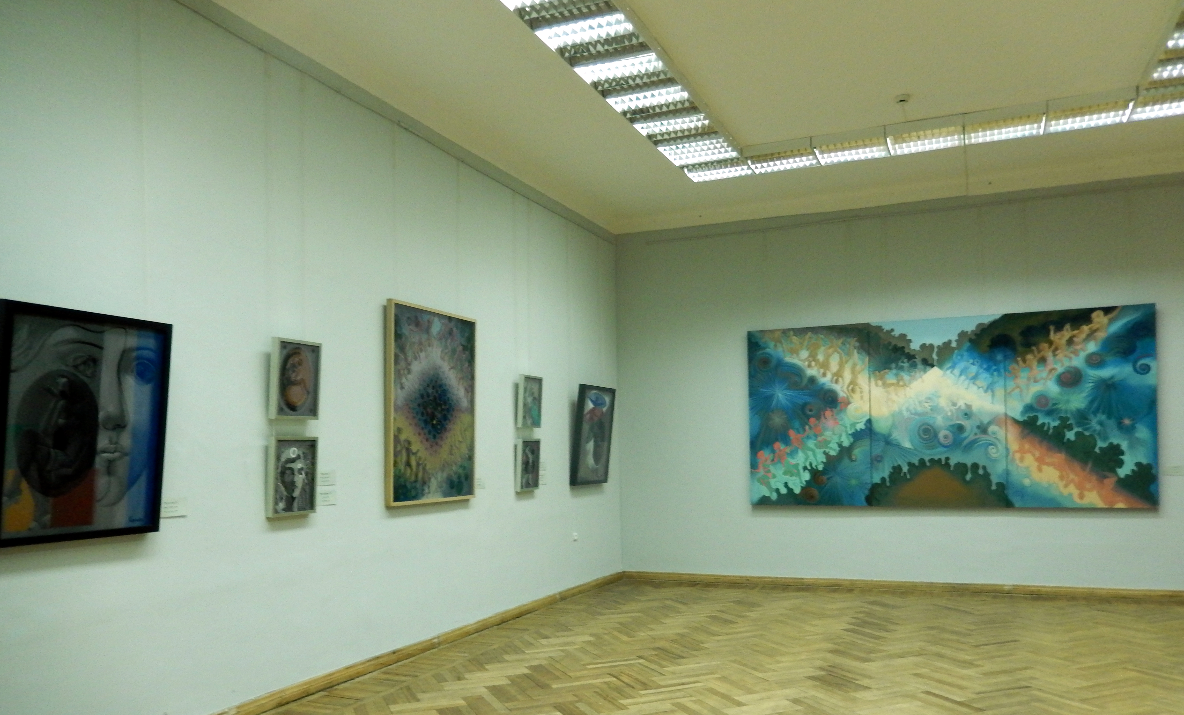 Jean Kazanjian's exhibition in National Gallery of Armenia, 2014